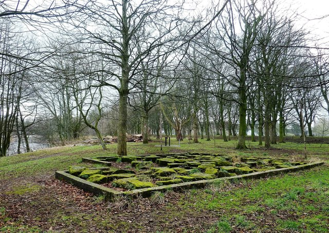 The Romans Were Here